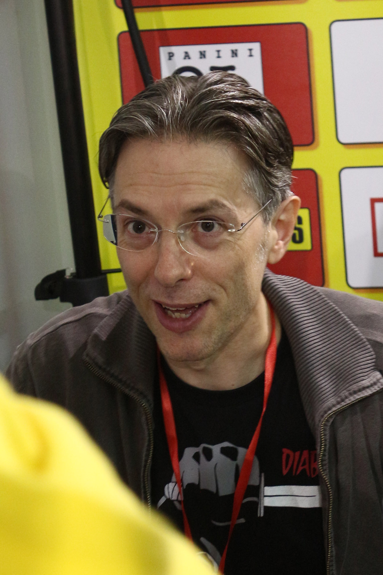 Leo Ortolani at Lucca Comics 2013